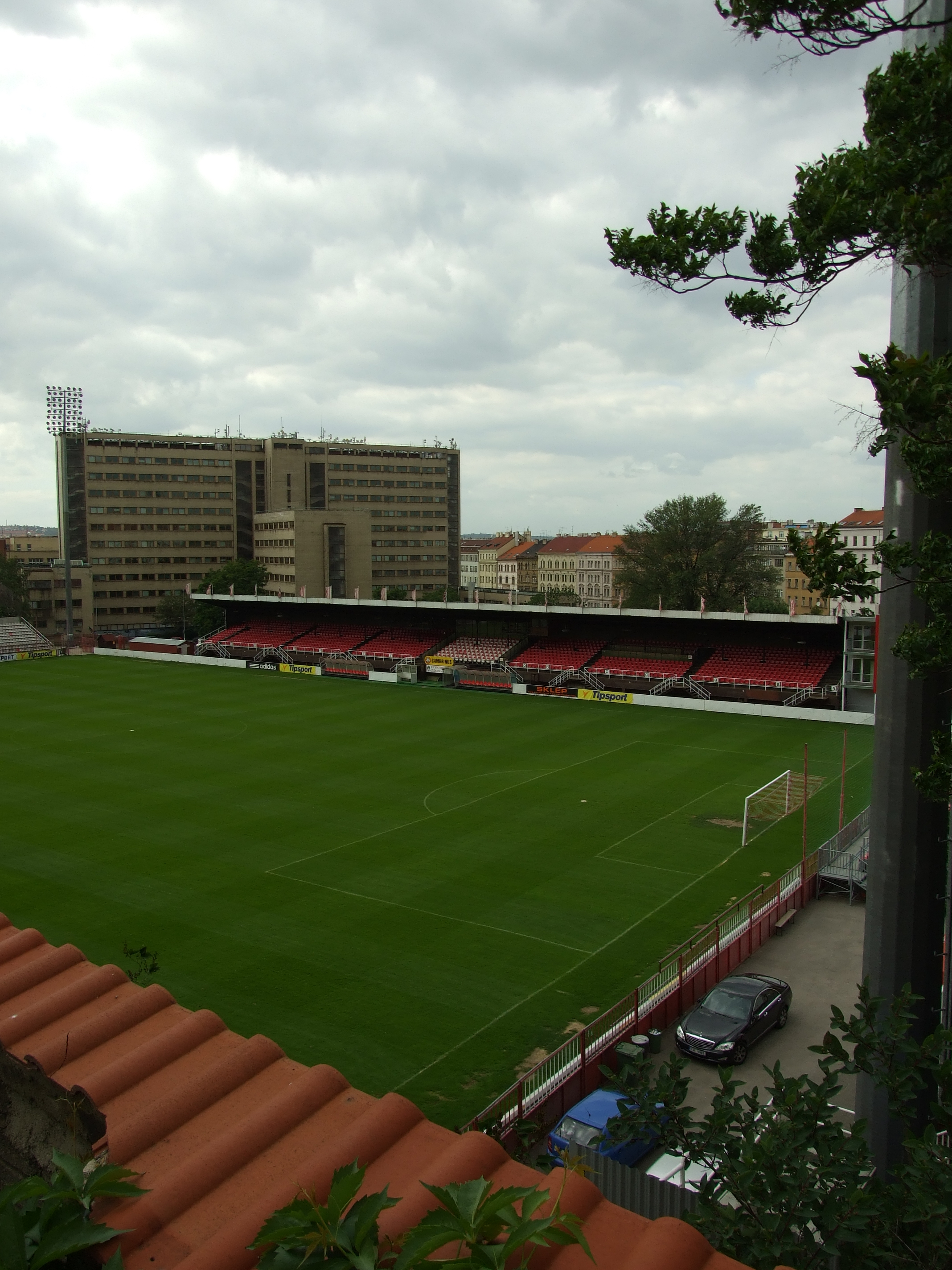 Viktoria Žižkov football (soccer) team stadium in Prague, CZhelp